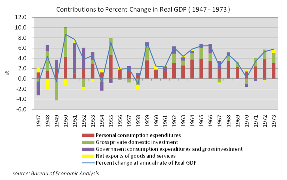 Contributions_to_Percent_Change_in_Real_GDP_(the_US_1947-1973)